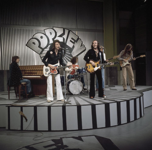 Sutherland Brothers & Quivver, rop/rock program 'Popzien' on Dutch television